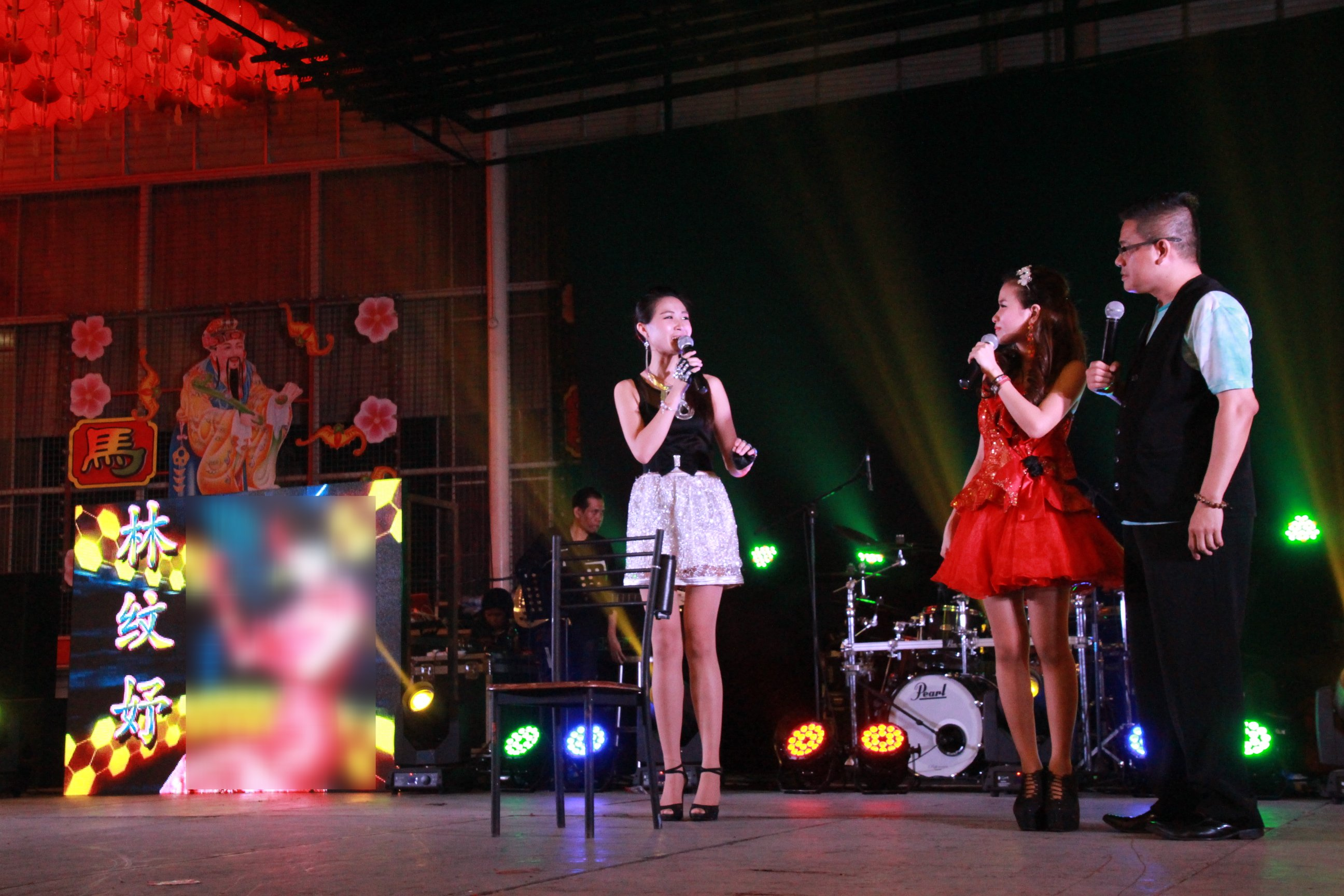 A female getai performer (in red) in Singapore being introduced by hosts. To the left is an LED display with the performer's name and photograph. (The photograph has been blurred out as it is a non-free derivative work.)